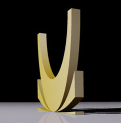 Public Logo about Versatilist Manifesto